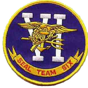 Scanned SEAL Team 6 Patch 01:43, 23 August 2005 Hoorah25 309x310 (23306 bytes) ( Scanned SEAL Team 6 Patch PD-USGov-Military )